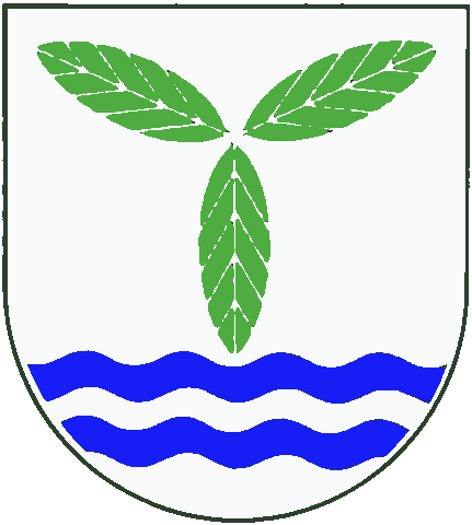 Coat of arms of the Amt (county) Haseldorf in Schleswig-Holstein, Germany.